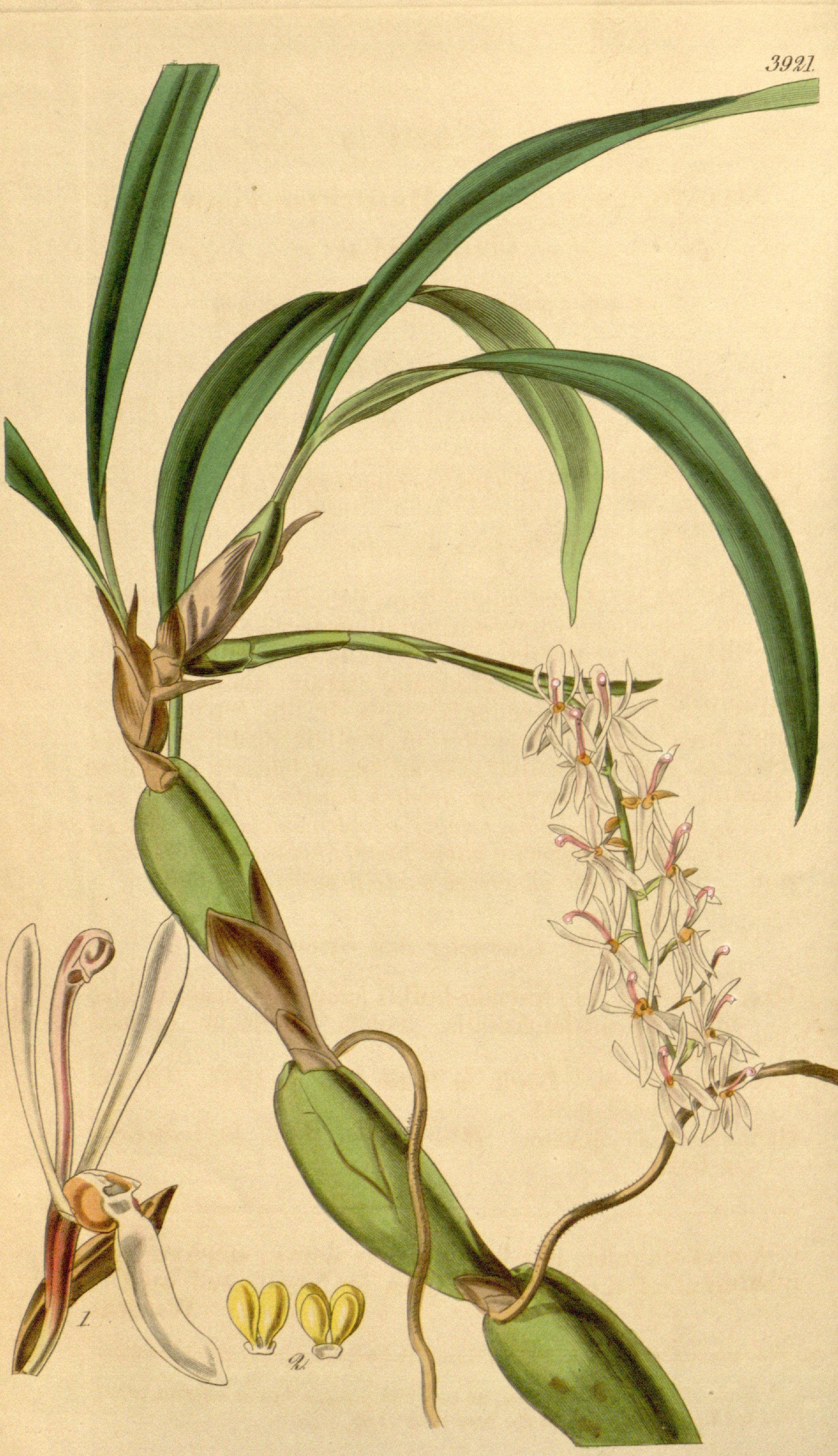 Illustration of Otochilus fuscus (spelled Otochilus fusca)